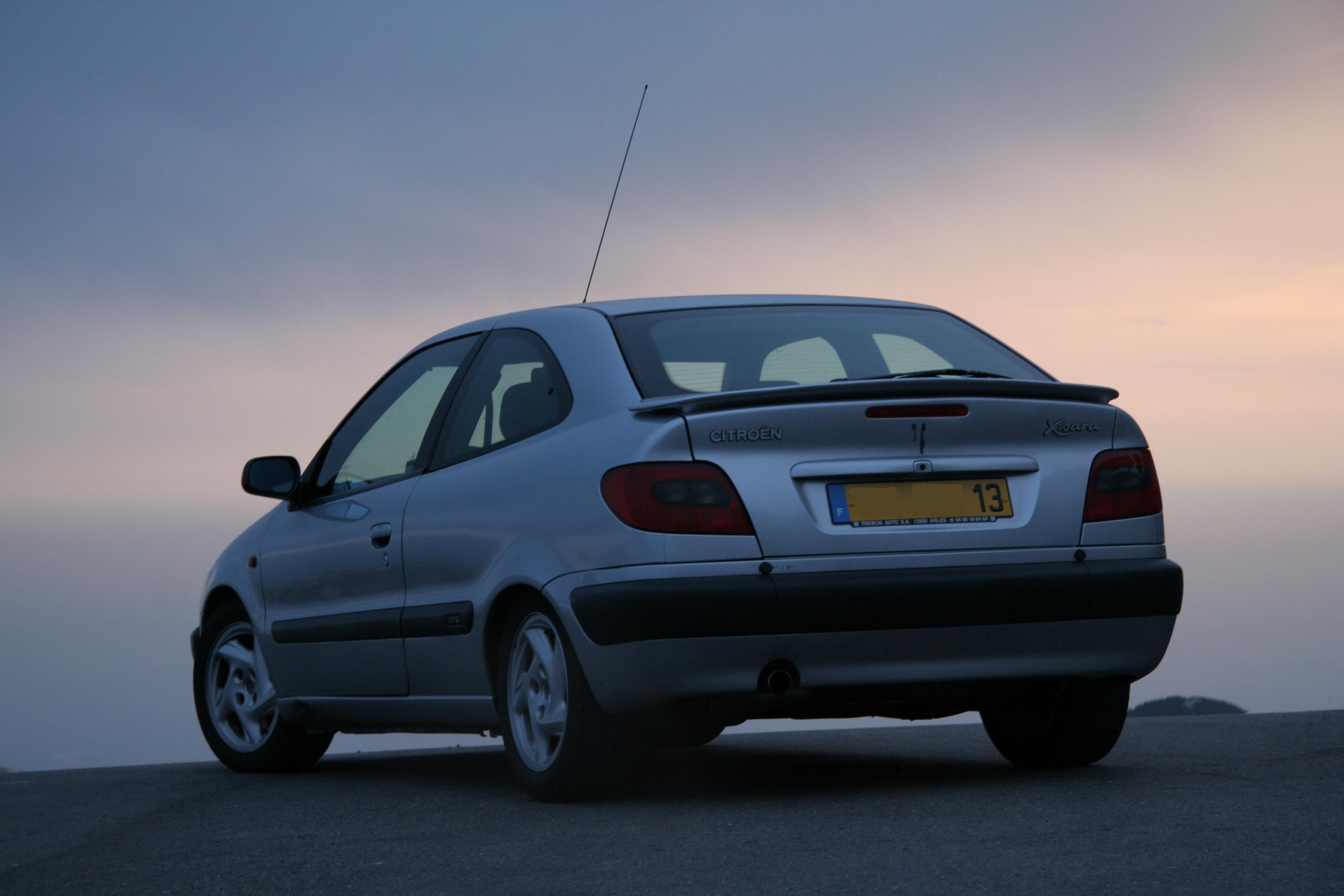 Citroën Xsara VTS 2.0 16v 167HP